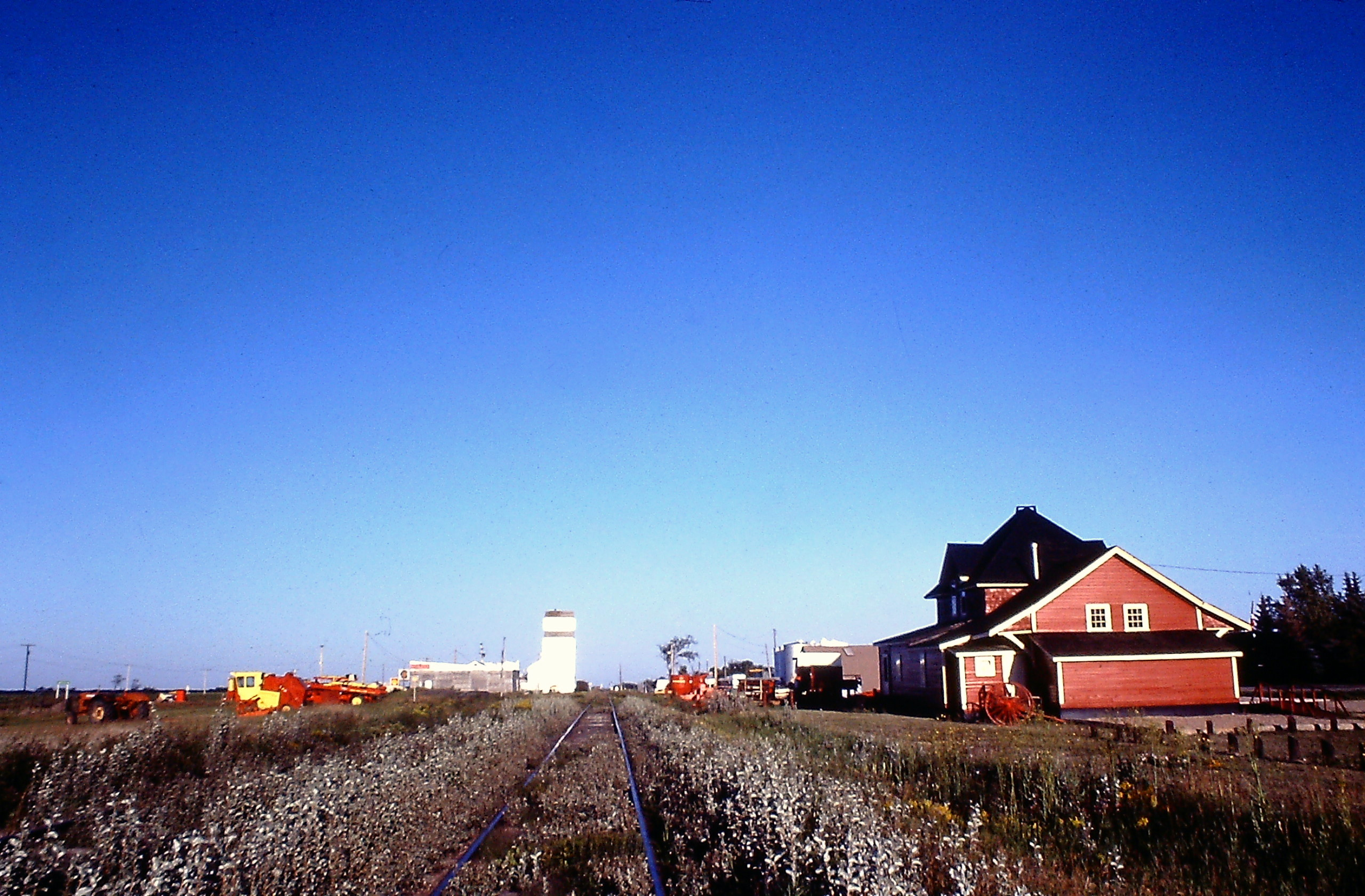 Railraod in Carlyle, Saskatchewan